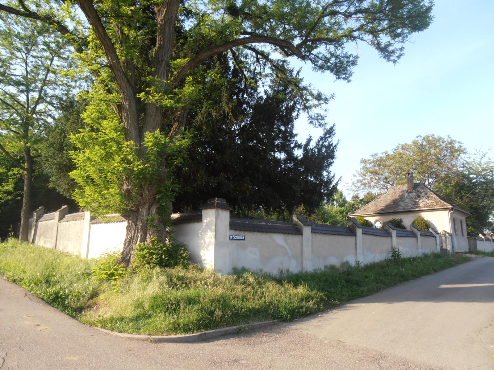 בית עלמין Jewish cemetery in OEH